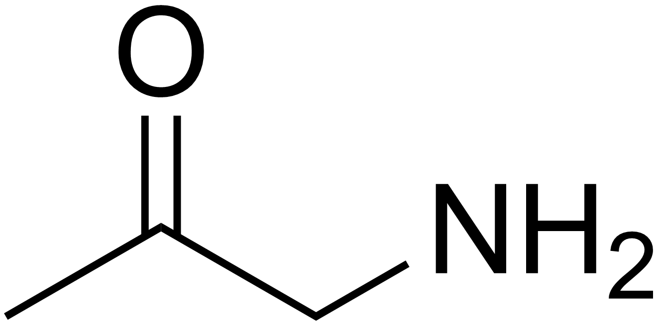 Chemical structure of aminopropanone (1-amino-2-propanone)